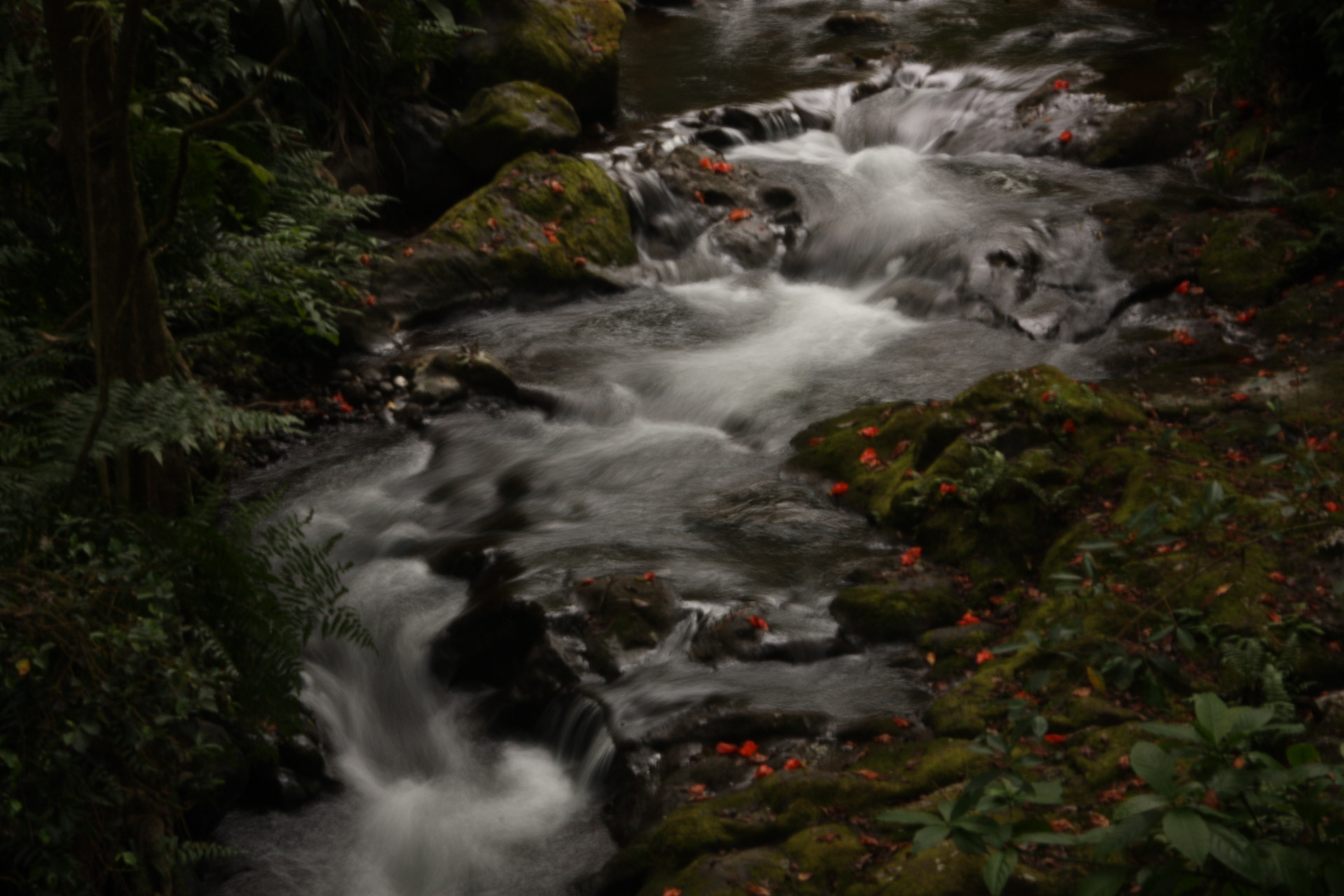 Creek on Big Island, Hawaii